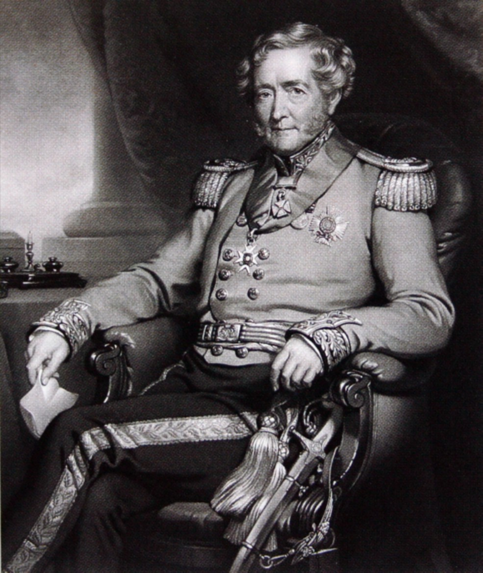 Lt-Gen. Sir John Bell KCB, Secretary to the Cape Colony government - Mezzotint 42 x 33 cm